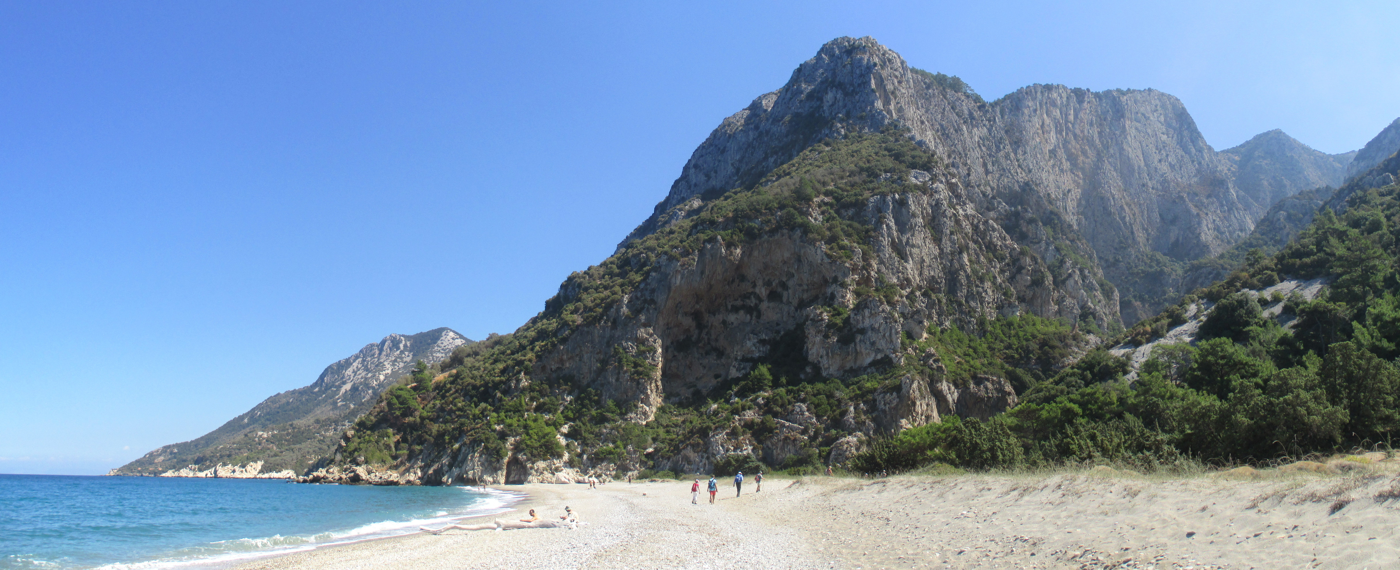 Megalo Seitani beach, Samos, Greece. Panorama.